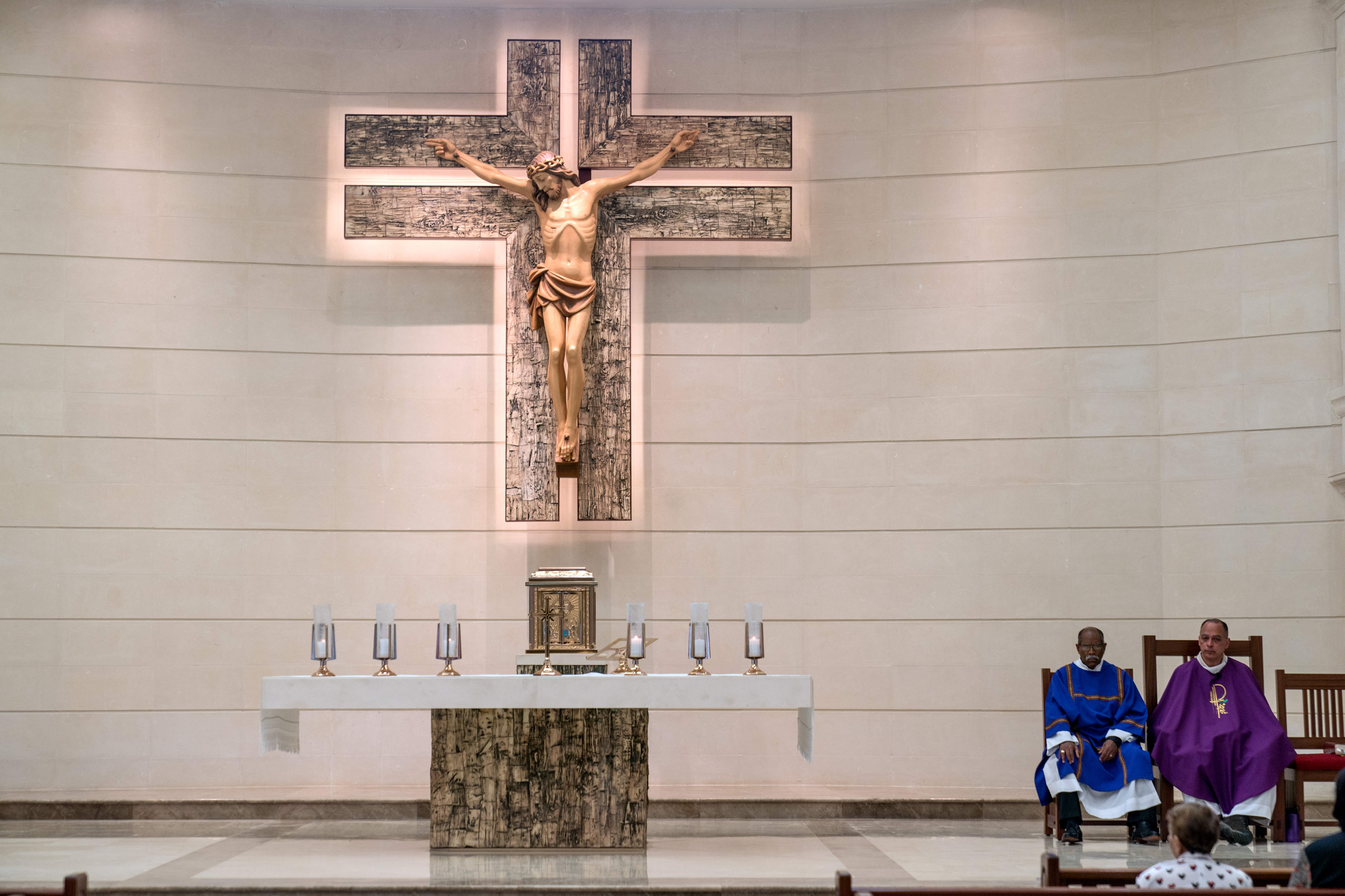 Sunday services, Stella Maris Parish, San Juan, Puerto Rico